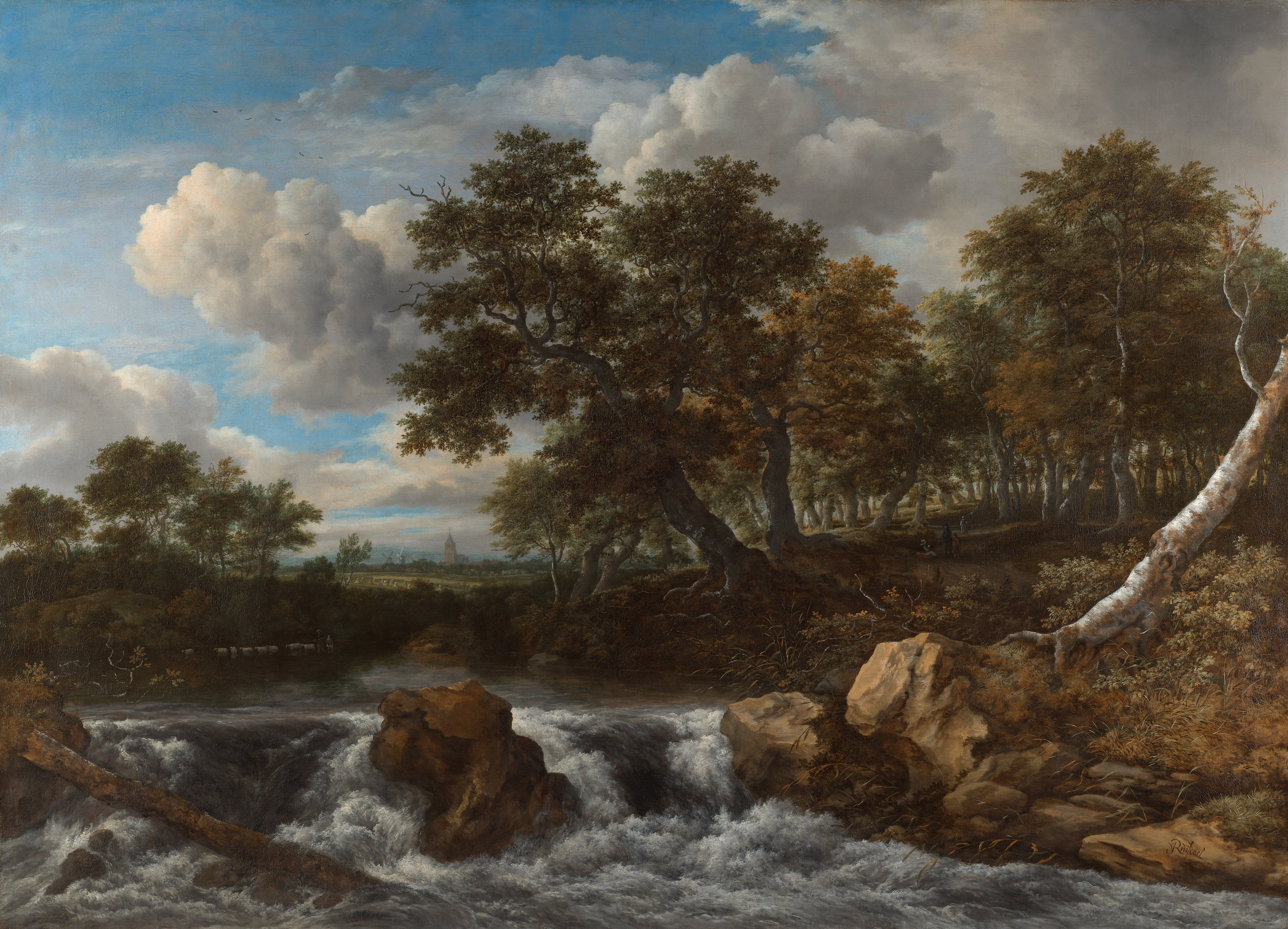 Landscape with on the foreground a waterfall running over rocks, flanked by fallen tree trunks. On the background a small forest. Further on in the distance a village with church spire and windmills can be seen.